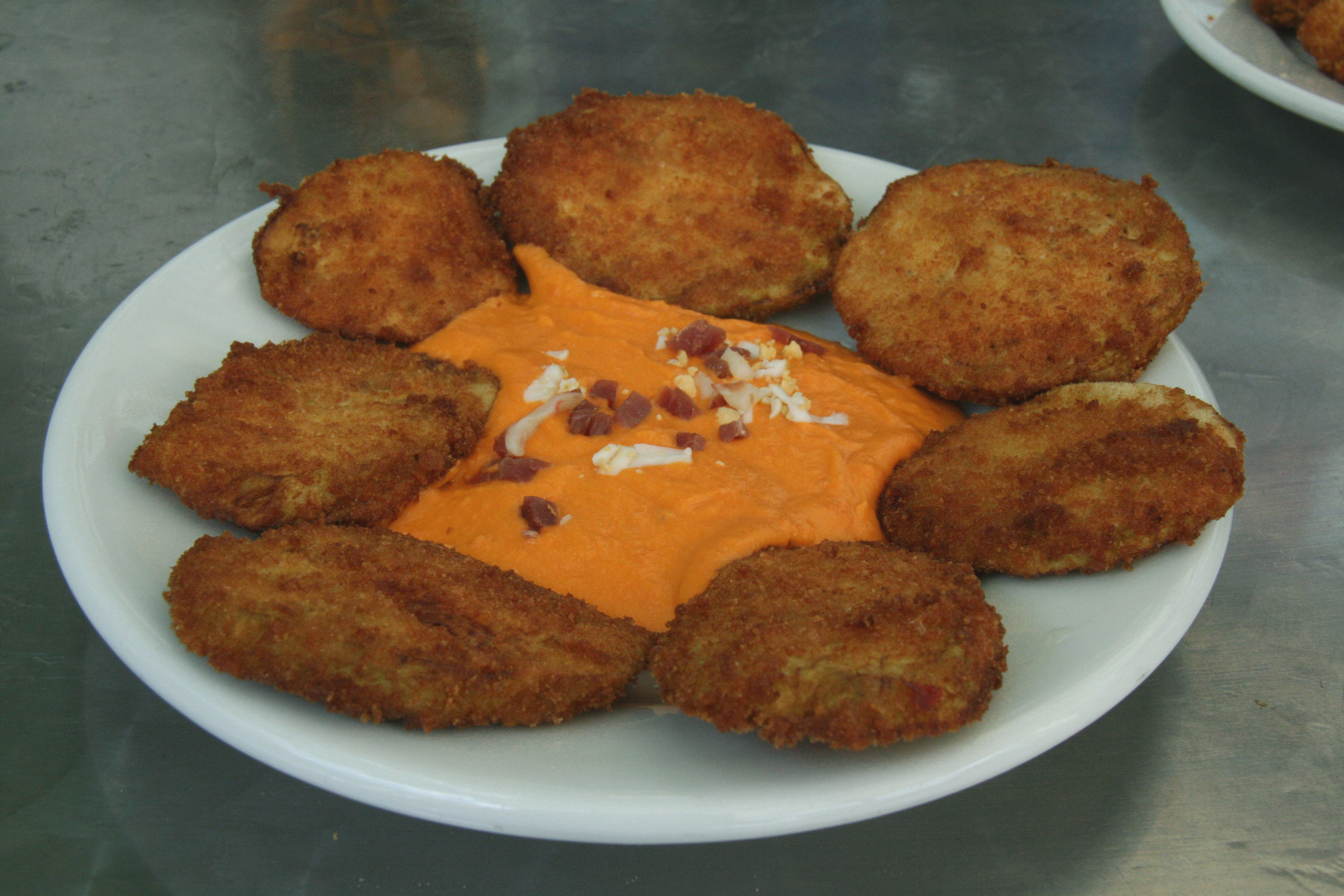 deep fry eggplant with salmorejo as a dip sauce